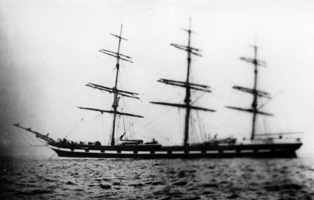 Loch Vennachar (ship)